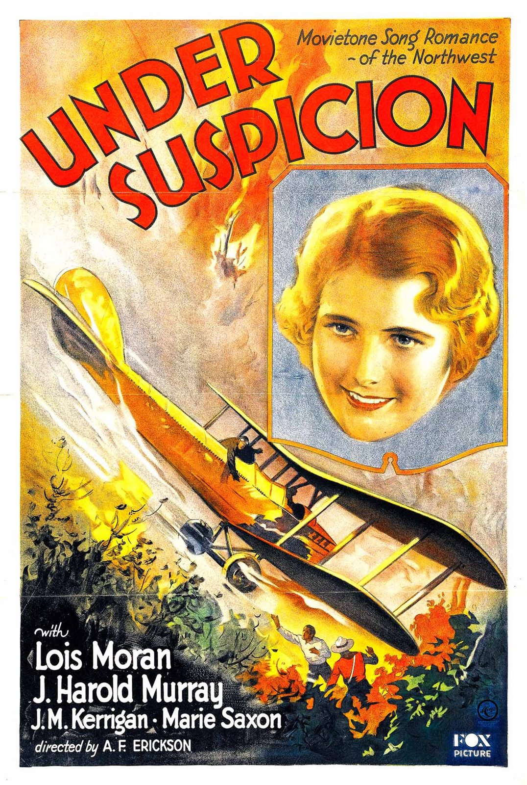 Poster for the 1930 film Under Suspicion. The item has no copyright markings on it as can be seen in the links above. At lower right is Fox Picture and a logo of the Miner Litho Co. NY-they printed the poster.